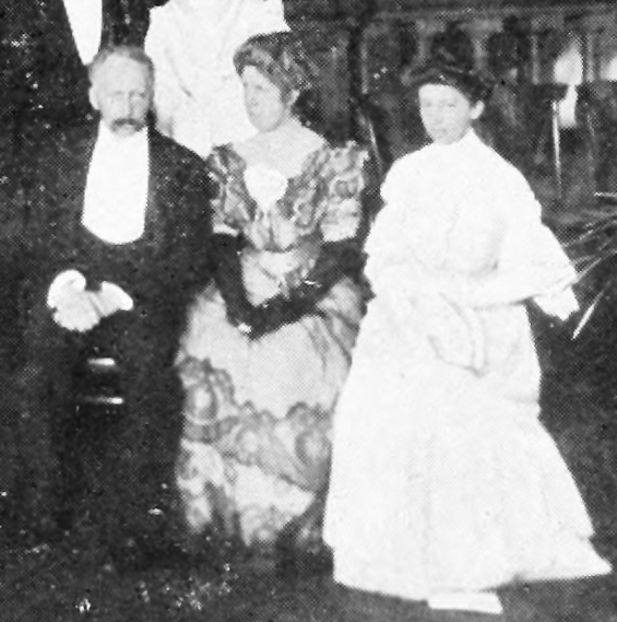 Source: "Report of the third International Conference 1906 on Genetics : hybridisation (the cross-breeding of genera or species), the cross-breeding of varieties, and general plant-breeding" / edited by W. Wilks, 1843-1923. London : printed for the Royal Horticultural Society by Spottiswoode [1907] Conference name: International Congress of Genetics (3rd : 1906 : London, England) Call no.: QH431.A1 I6 1906 Detail of Image showing larger group, which appears facing page 32: This selection shows William Bateson, his wife Beatrice (Durham) Bateson, and his sister-in-law Florence Margaret Durham, 1906.